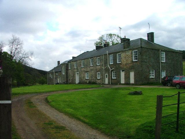 Baysdale Abbey. Extensively rebuilt after the dissolution of the monasteries. Baysdale Abbey is now private residences.